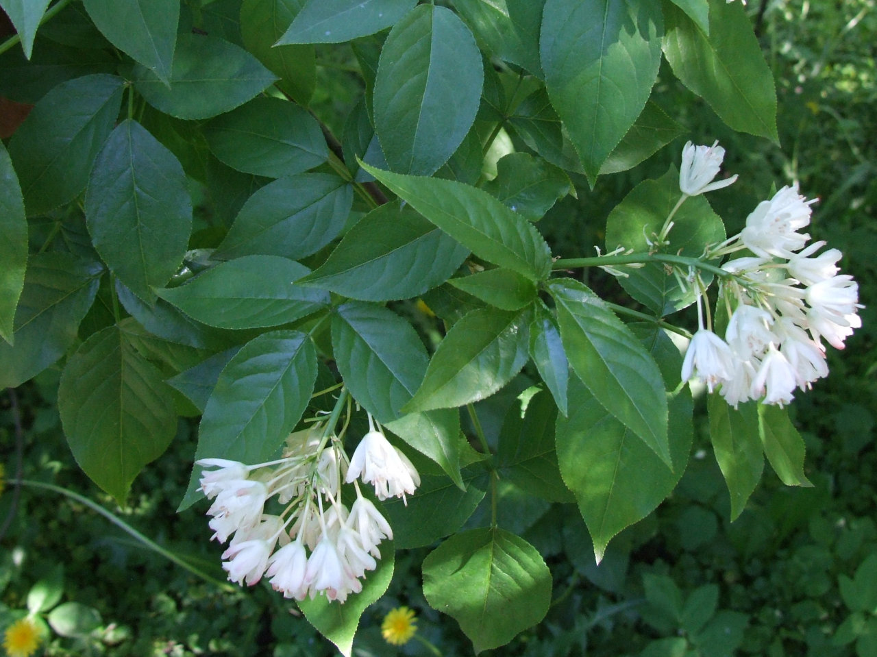 Staphylea trifolia (location:Poland, Botanical Garden in Cracow)